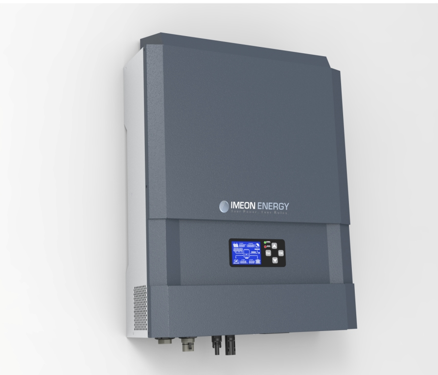 hybrid smart grid inverter IMEON ENERGY